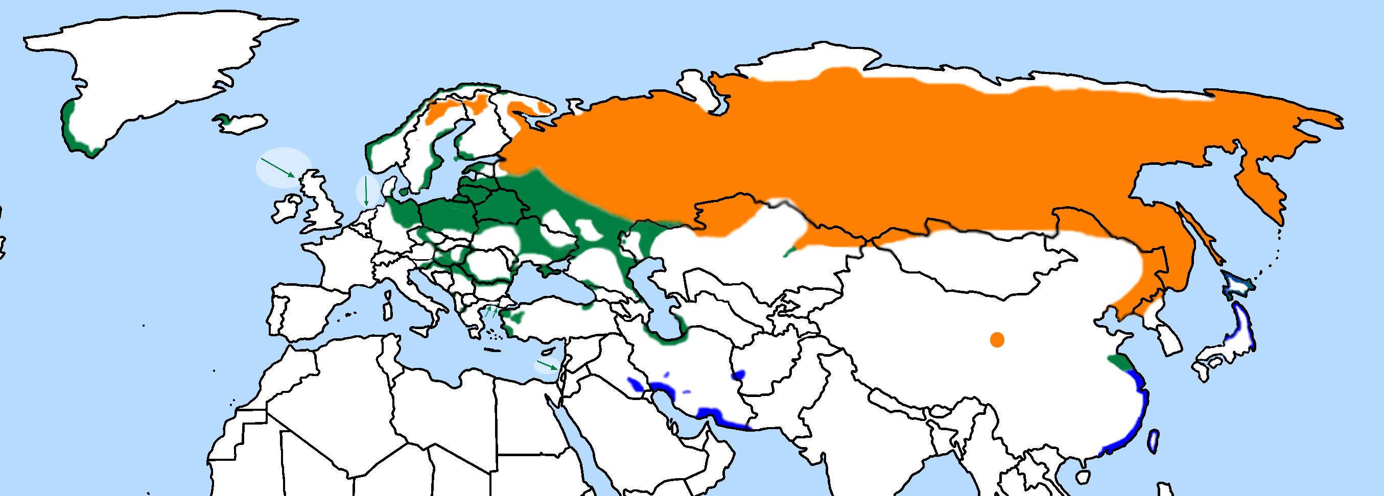 build by Ulrich Prokop Source: James Ferguson-Lees: Raptors of the World. Houghton-Mifflin Boston-New York. 2001 p.403